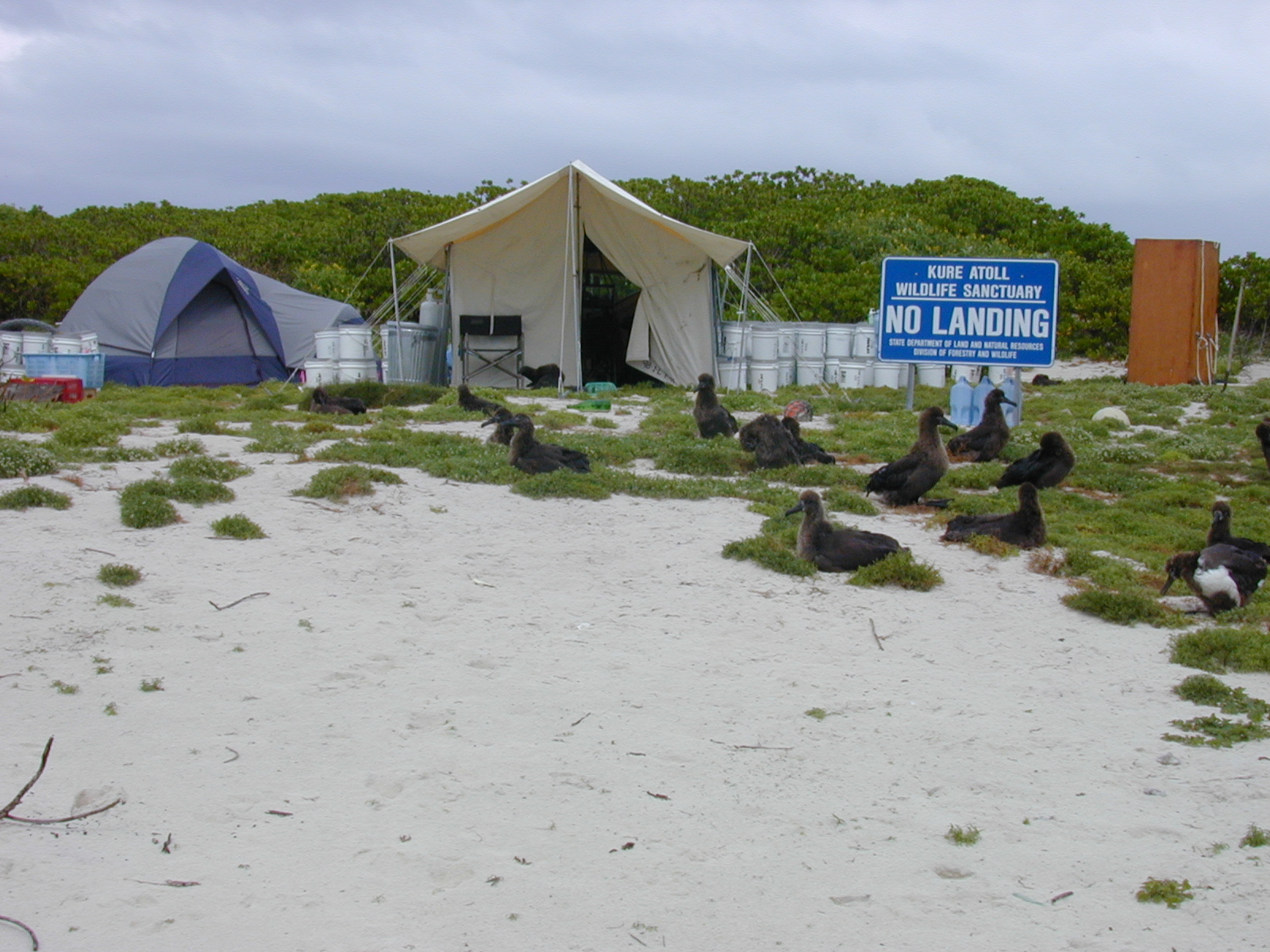 Lobularia maritima (habit and black foot albatross chicks). Location: Kure Atoll, NMFS camp